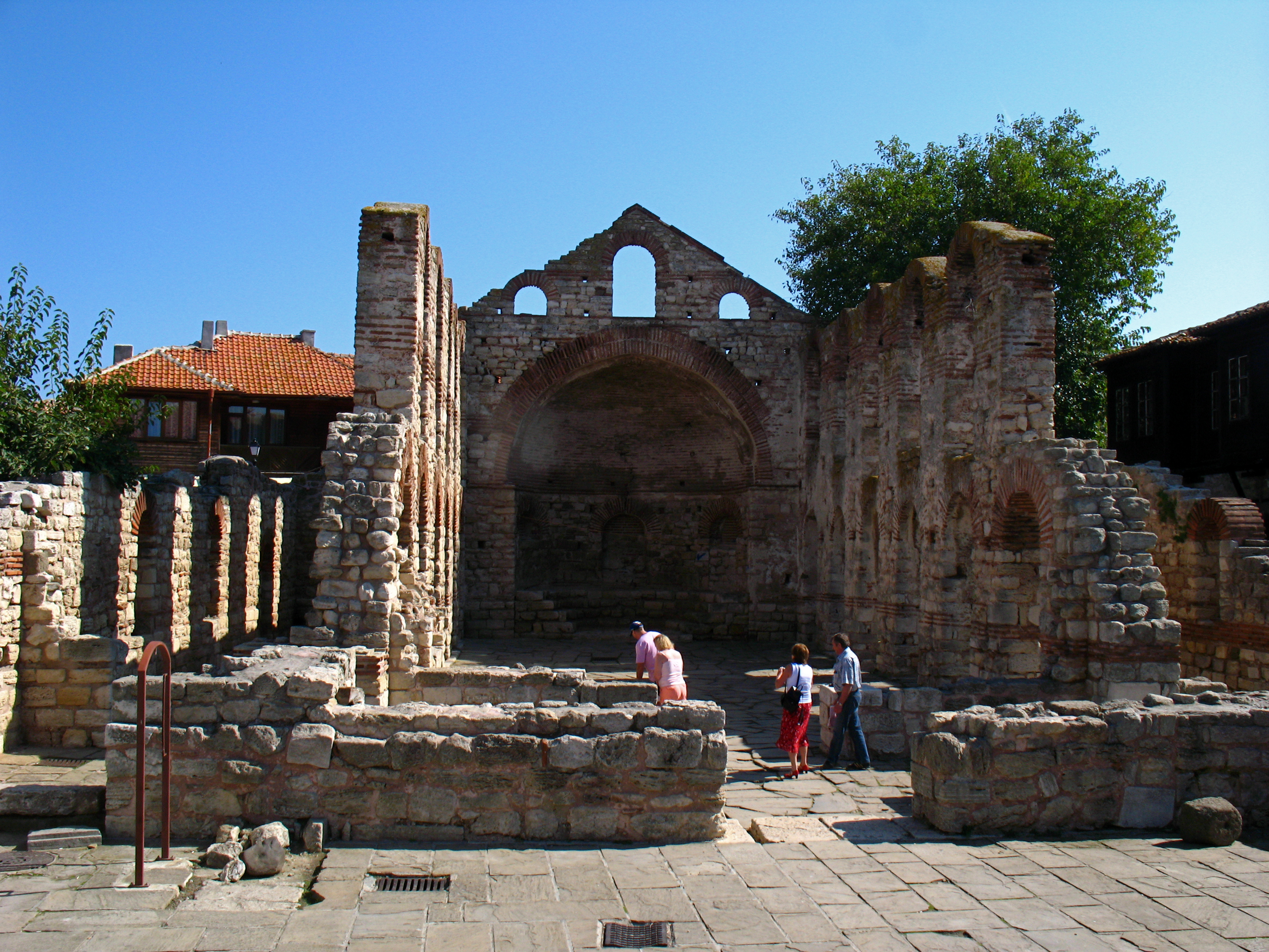 The church of St. Sofia, Nessebar, Old City